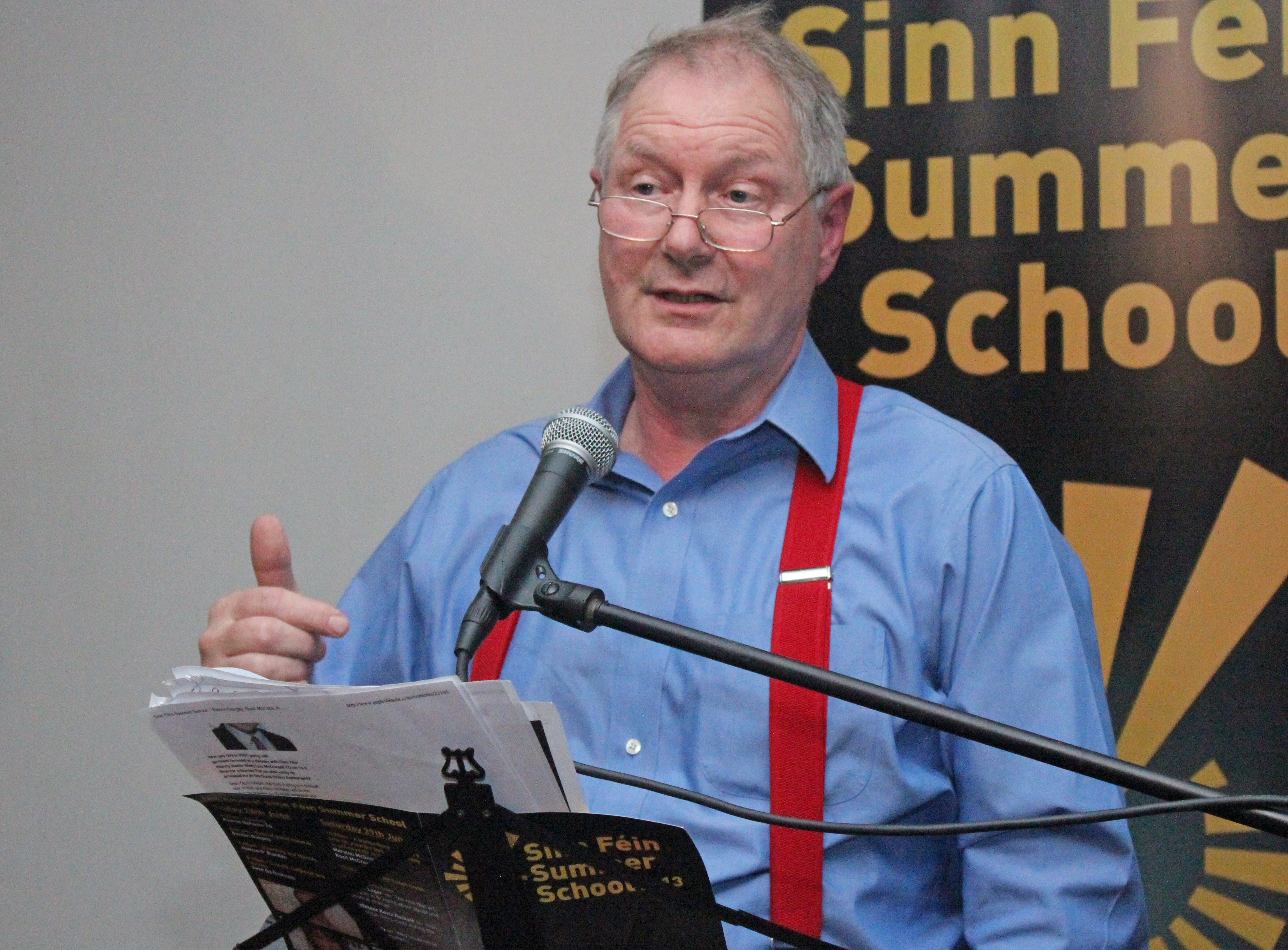 Roy Greenslade at Sinn Féin Summer School in 2013